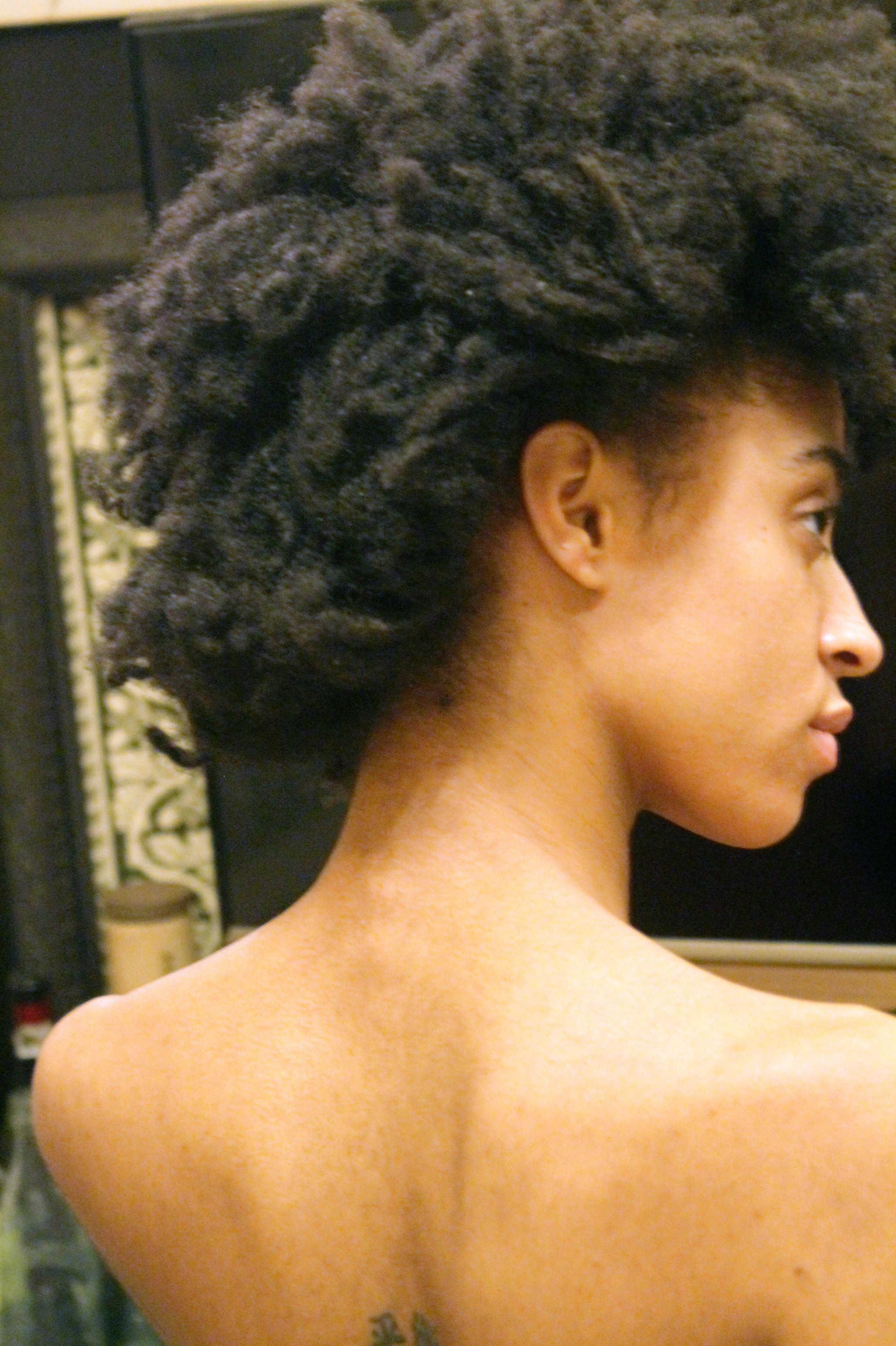 Natural Afro - hair type 4c- model Gwyneth Ellis